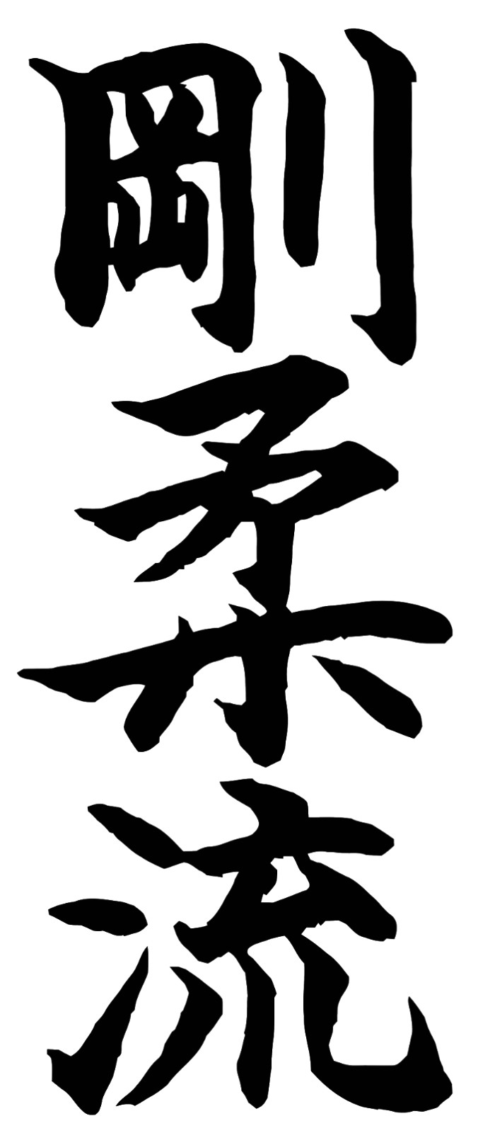 Goju-Ryu in Kanji